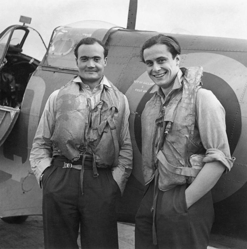 1940s Cecil Beaton vintage exhibition print of two Battle of Britain fighter pilots, Flight Lieutenant Brian Kingcome (left), commanding officer of No. 92 Squadron Royal Air Force and his wingman, Flying Officer Geoffrey Wellum, next to a Supermarine Spitfire at RAF Biggin Hill, Kent, 1941.